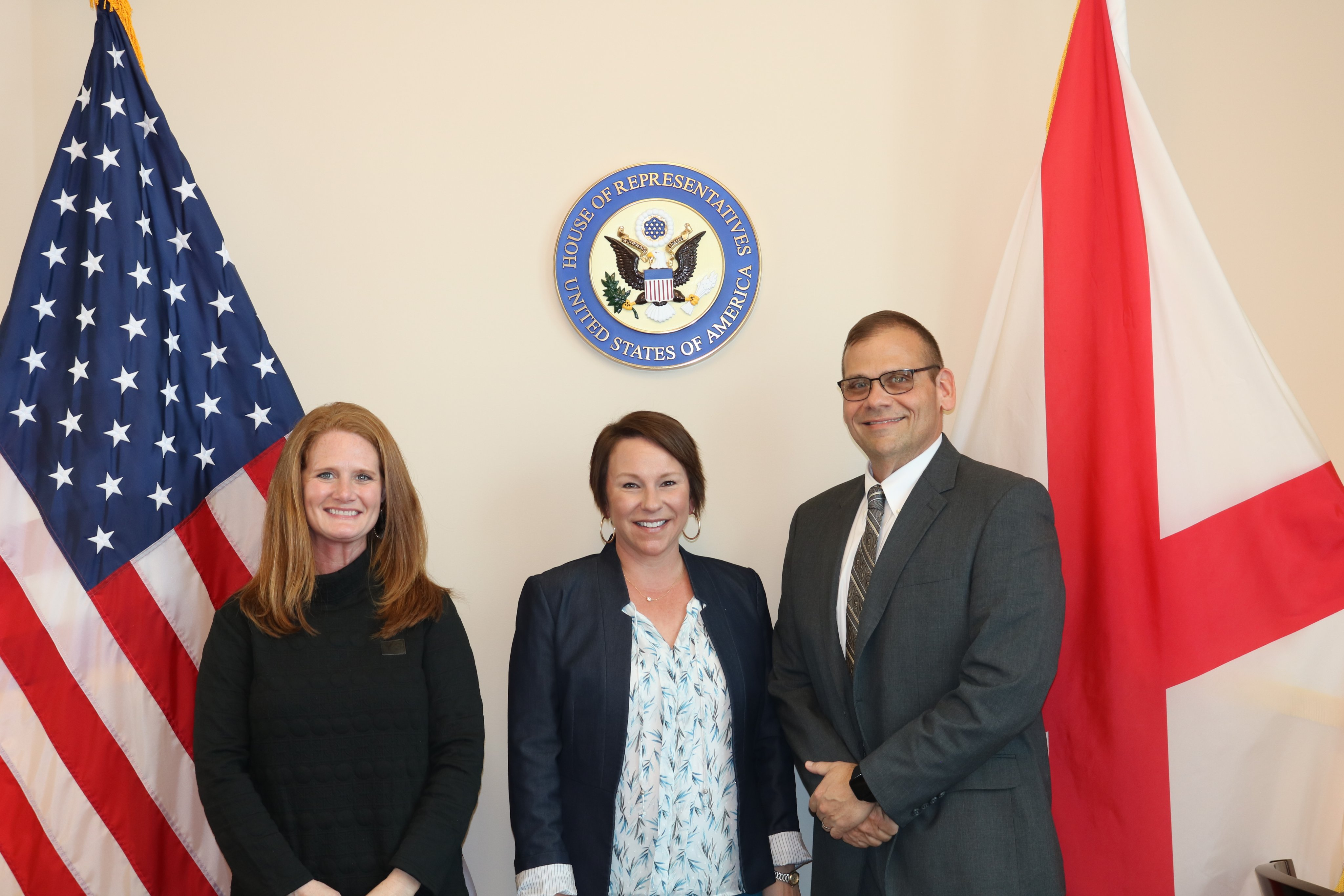 It was great to meet w/ Tallassee Mayor Johnny Hammock and his wife Kimberly in my office this afternoon. I always appreciate the opportunity to sit down & talk w/ local leaders from across the Second District.